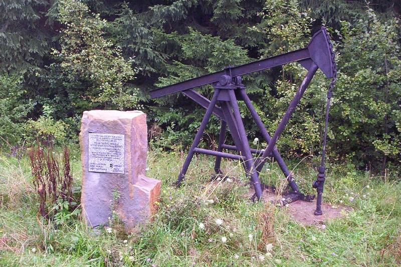 Nodding donkey, and stone with plate - monument to the first in Poland (or even in Europe) oil drilling school (1885-1888) in Ropianka, Beskid Niski, Poland.